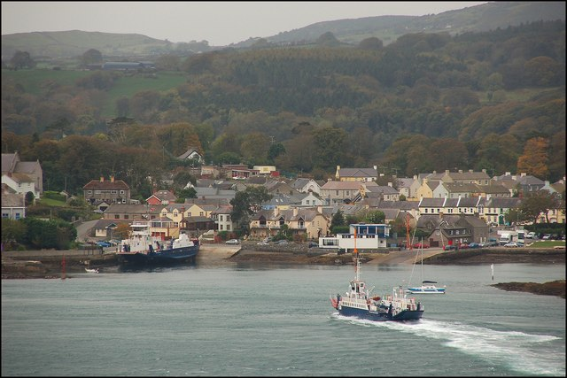 The Strangford Narrows The Strangford Narrows is the stretch of sea between Strangford (in the middle background) and Portaferry. It is subject to a very strong tidal current because of the large amount of water entering and leaving the partly enclosed Strangford Lough. The “Portaferry II” is undergoing her annual overhaul (left) while the “Strangford Ferry” approaches from Portaferry (out of sight to the right).